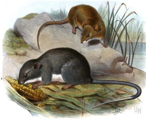 Two Central American rodents: Oryzomys couesi (top) and Tylomys panamensis (bottom).